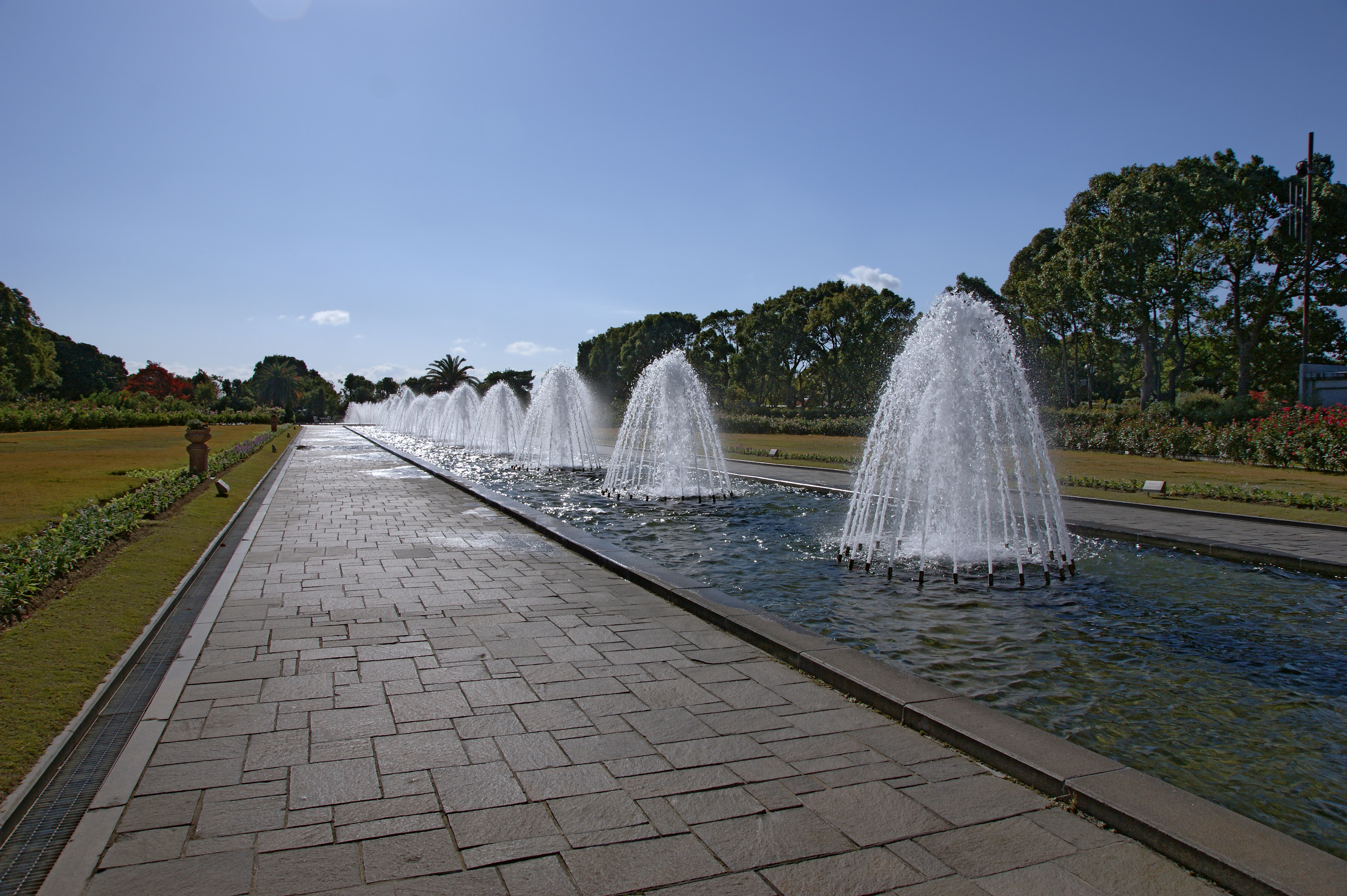 Suma Rikyu Park, Kobe, Hyogo prefecture, Japan